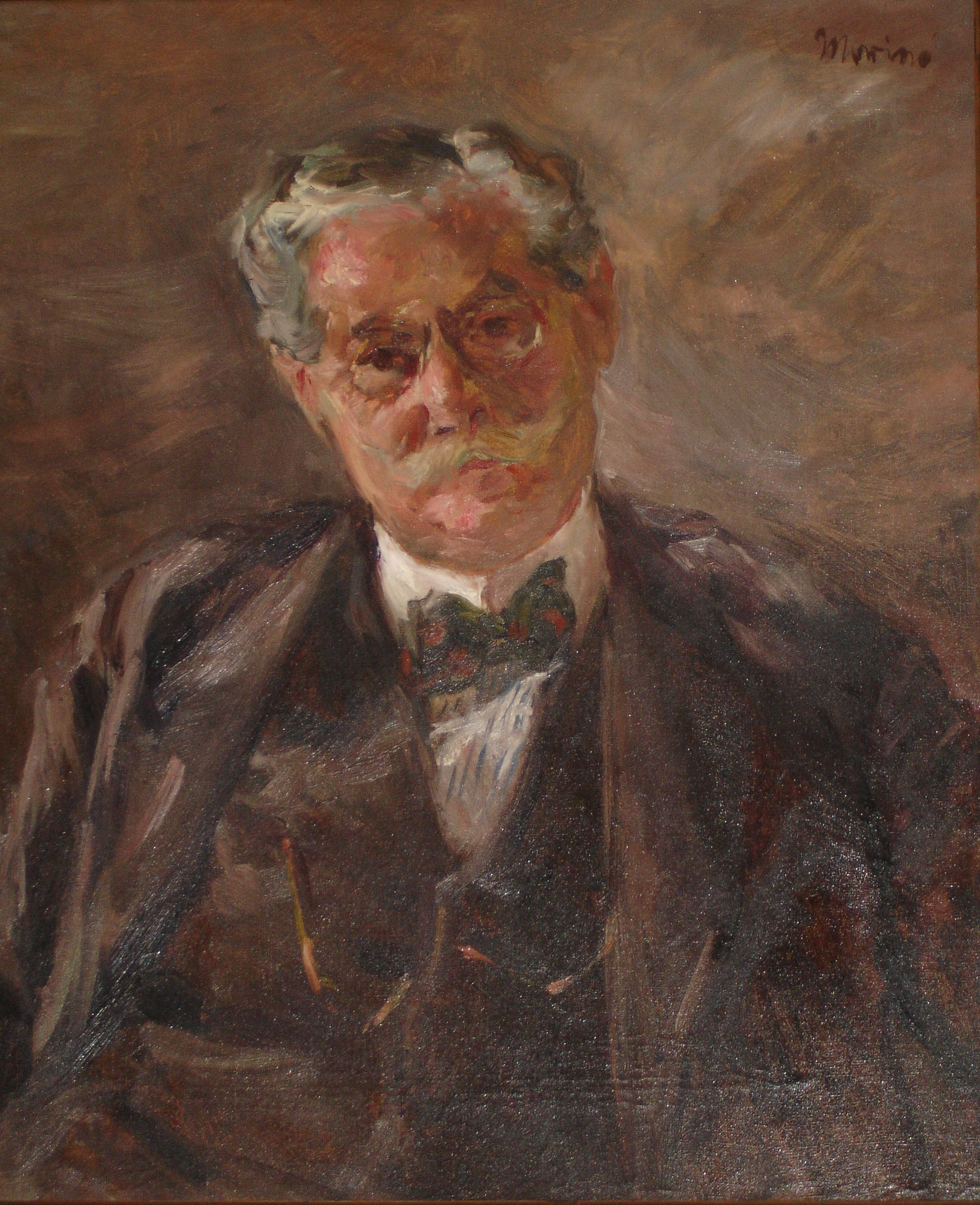 Portrait Gustav Harpner